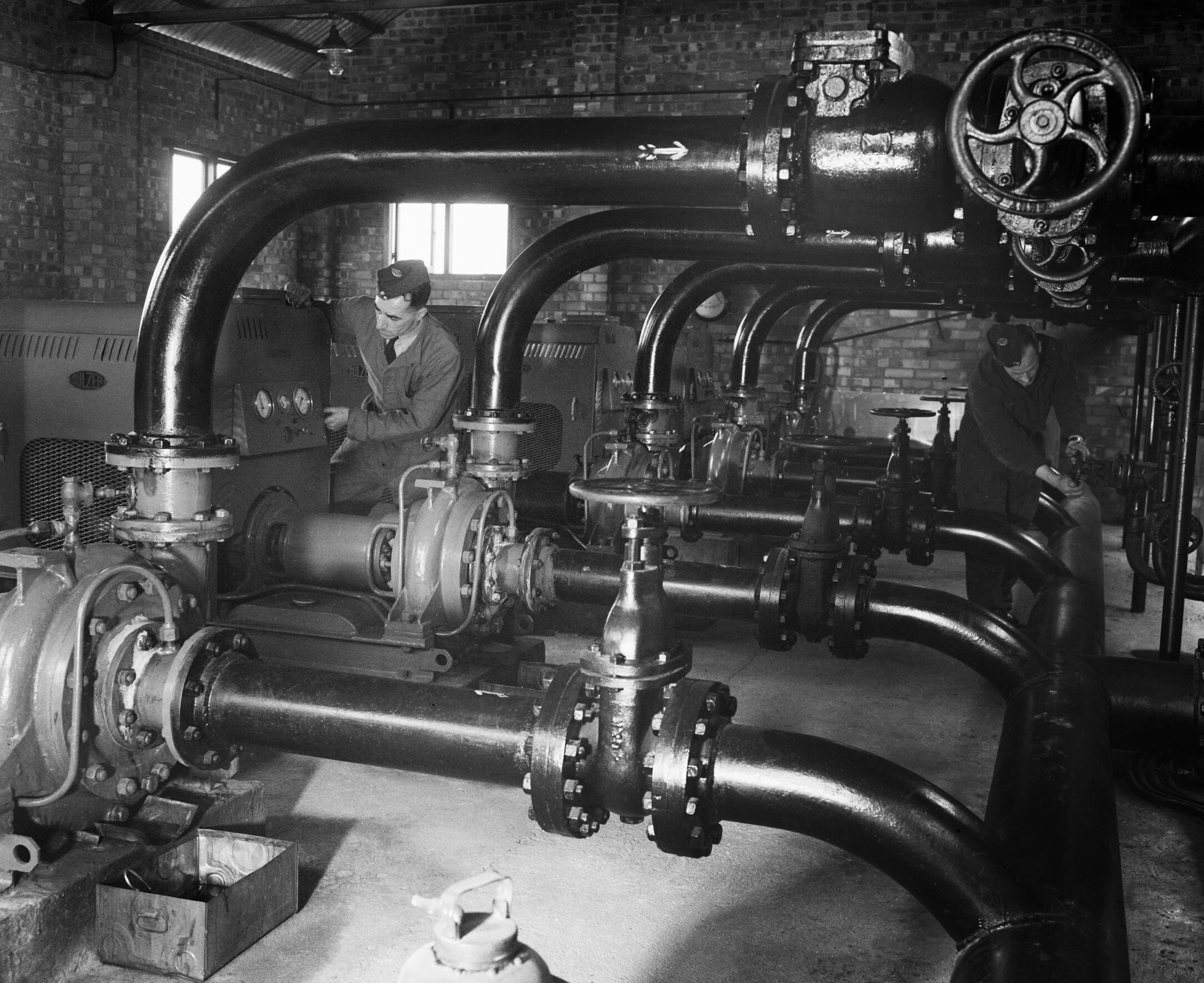 Sulzer pumps installed at Graveley, Huntingdonshire, to supply the FIDO (Fog Investigation and Dispersal Operation) petrol pipes on either side of the main runway, 28 May 1945. Sulzer pumps installed at Graveley, Huntingdonshire, to supply the FIDO (Fog Investigation and Dispersal Operation) petrol pipes on either side of the main runway.